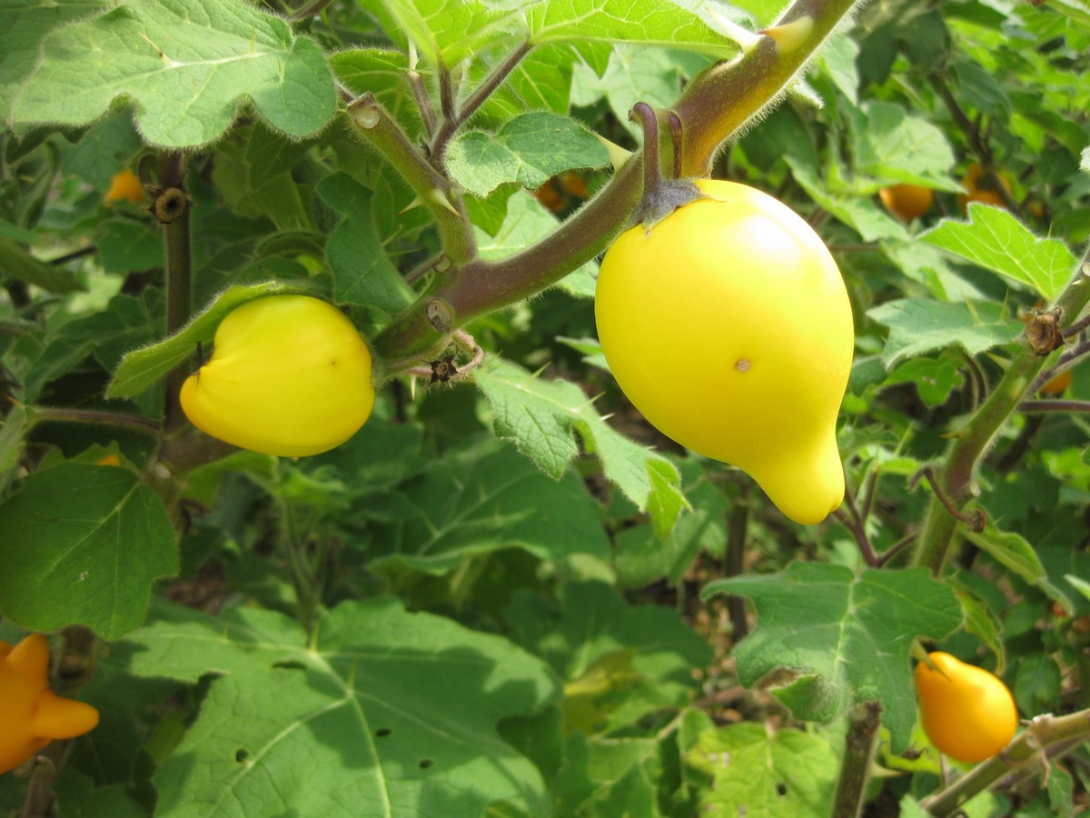 Photographed at the Queen Sirikit Botanic Garden (Chiang Mai Province, Thailand) in March